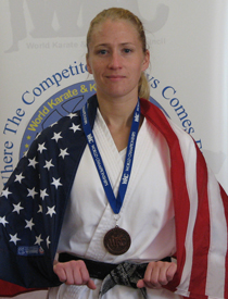 Photo of Katie Murphy Karate Medals